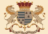 Coat of arms of the Booth-Grey family